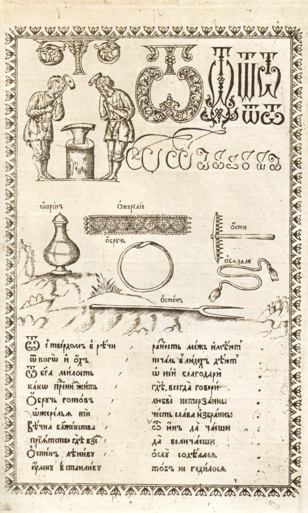 Karion Istomin's alphabet book, letter Ѡ